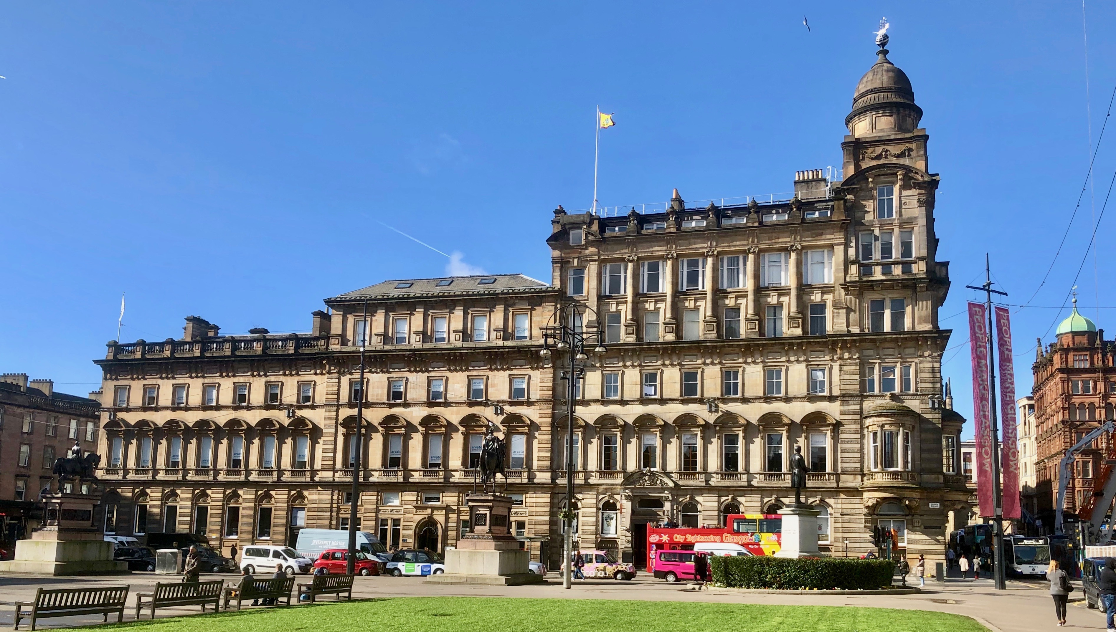 George Square, Glasgow, west side with Bank of Scotland building and Merchants' House